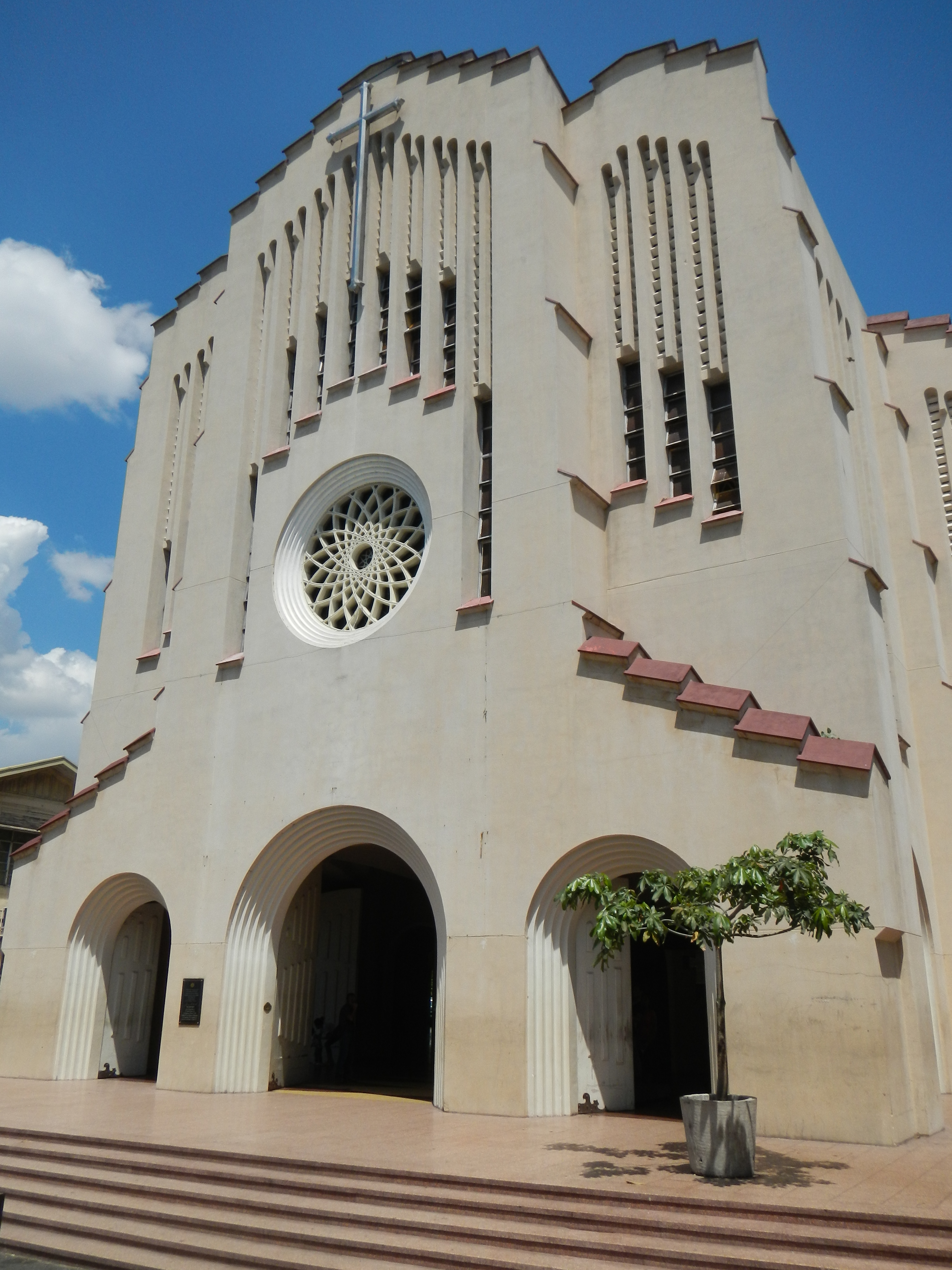 National Shrine of Our Mother of Perpetual Help[1][2] Coordinates: 14°31'52"N 120°59'42"E The National Shrine of Our Mother of Perpetual Help[3], also called the Redemptorist Church and the Baclaran Church, is a Roman Catholic parish church under the vicariate of the parish of Santa Rita de Cascia in the Diocese of Parañaque. The edifice is on Roxas Boulevard in the barangay of Baclaran in Parañaque City, Metro Manila. It is one of the most widely known churches in Metro Manila, and devotees from many parts of the region regularly flock to the sanctuary every Wednesday in what has become known as Baclaran Day. The parish celebrates its fiesta on June 27, the feast day of Our Mother of Perpetual Help. "the most attended church in Asia" is a coveted title Baclaran church, [4][5] Redemptorists Baclaran, Paranaque City, 1700 Metro Manila[6]Architect Cesar Concio[7][8][9]